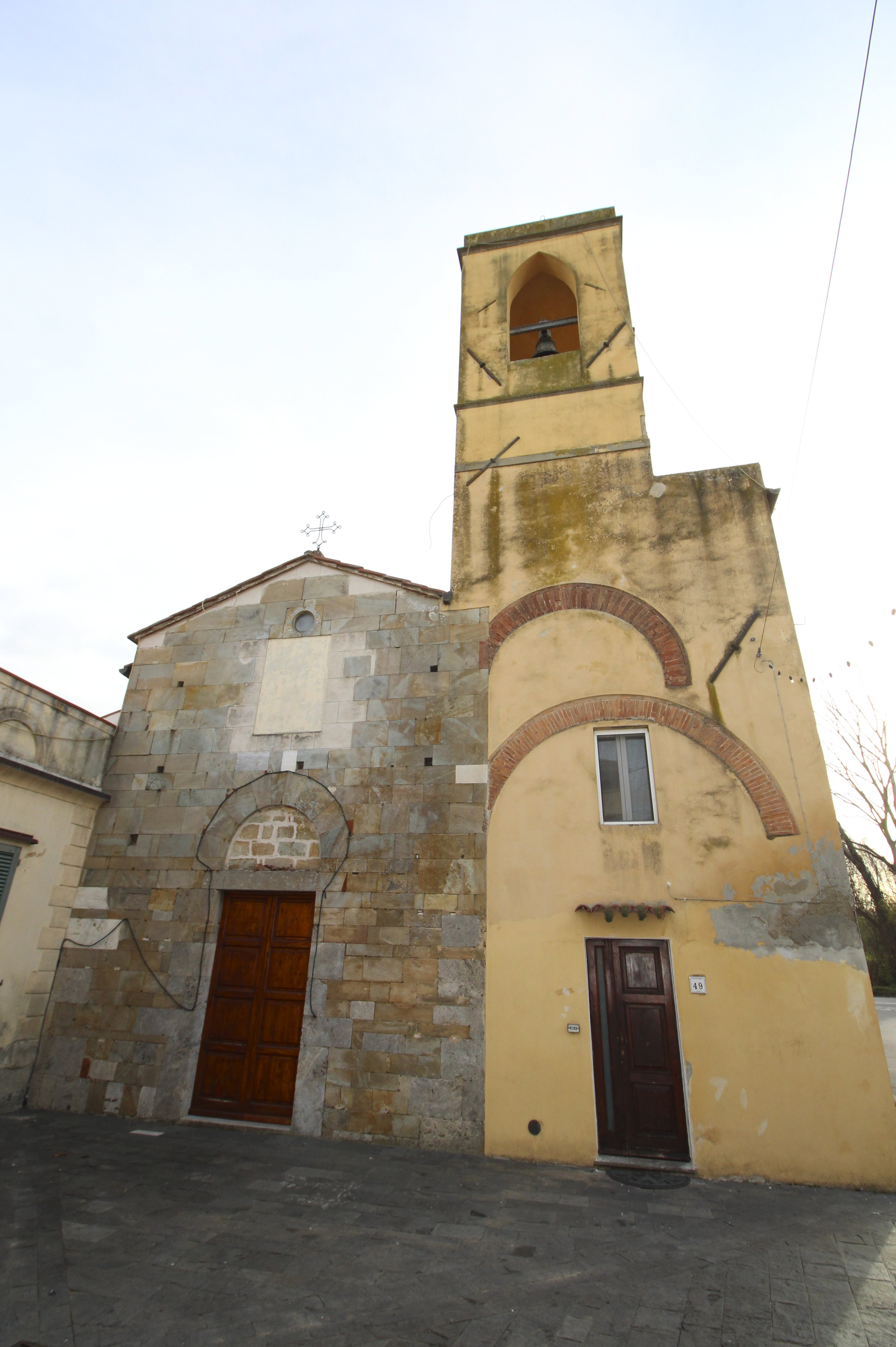 Church San Giovanni Battista, Ghezzano, hamlet of San Giuliano Terme, Province of Pisa, Tuscany, Italy